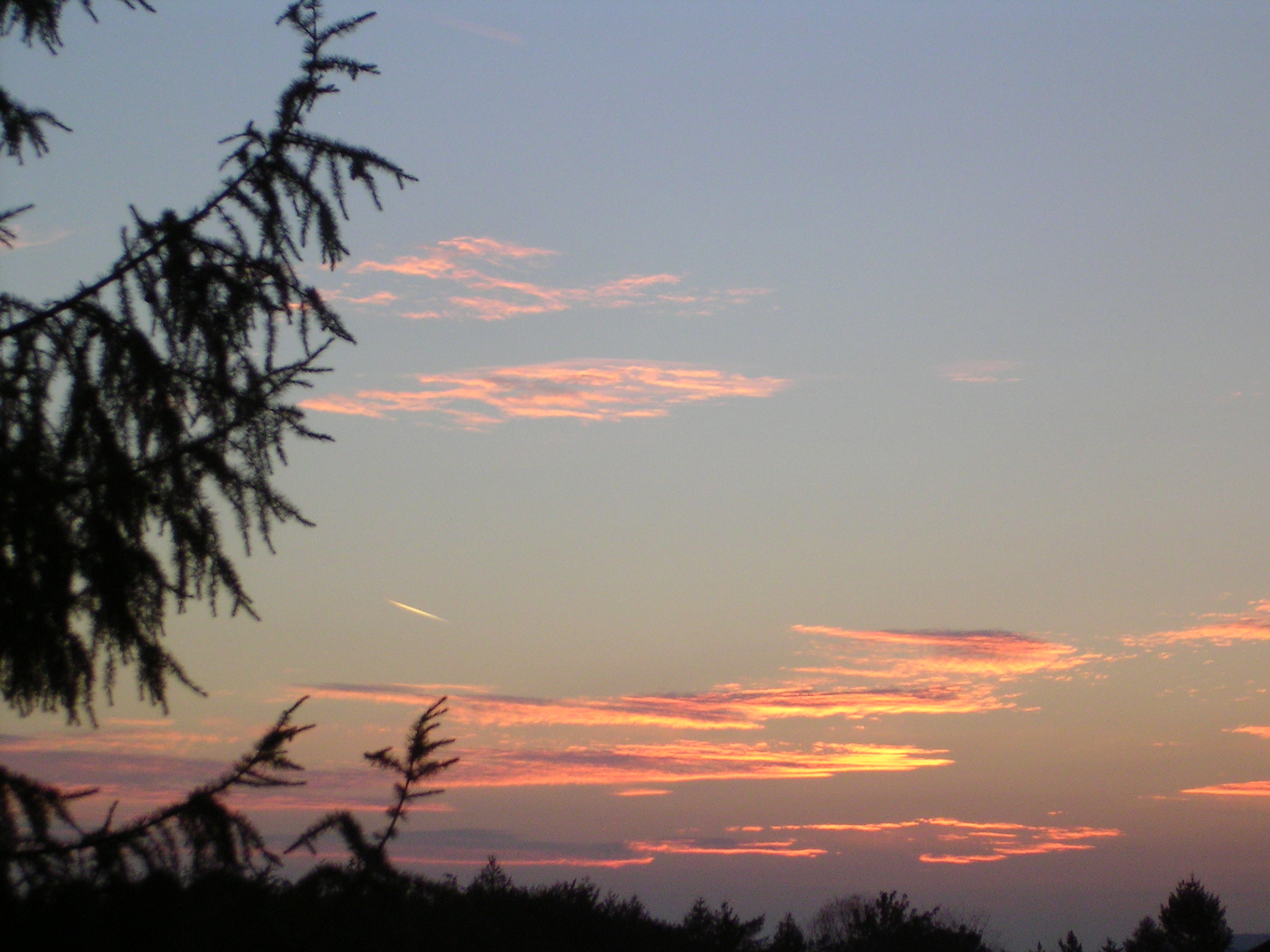 Glowing Altocumulus in the morning